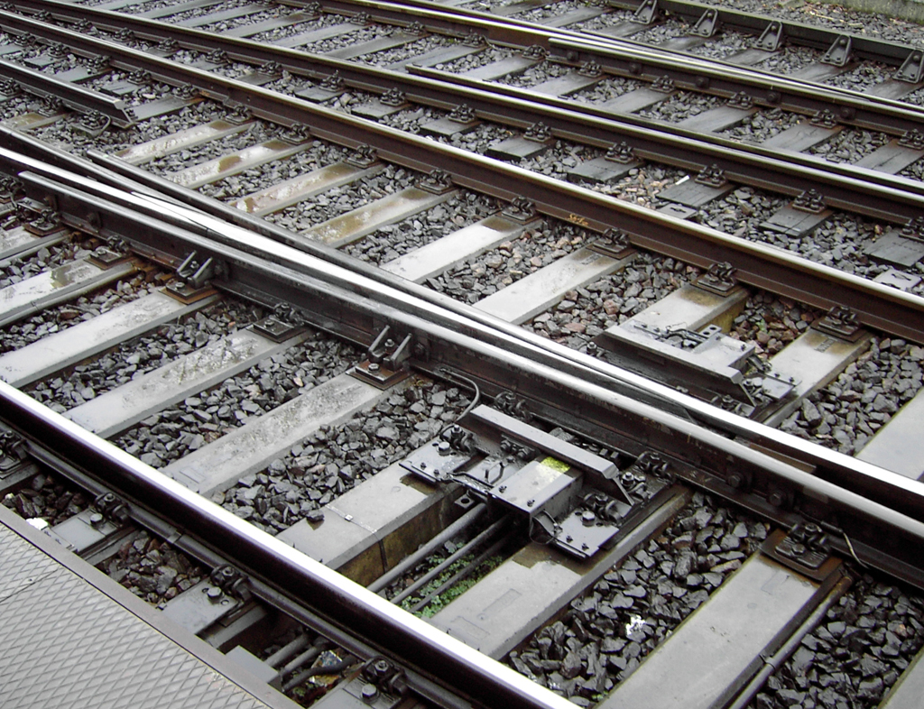 Railroad switch: the frog is movable to allow higher speeds. Photographed in Bonn main railway station